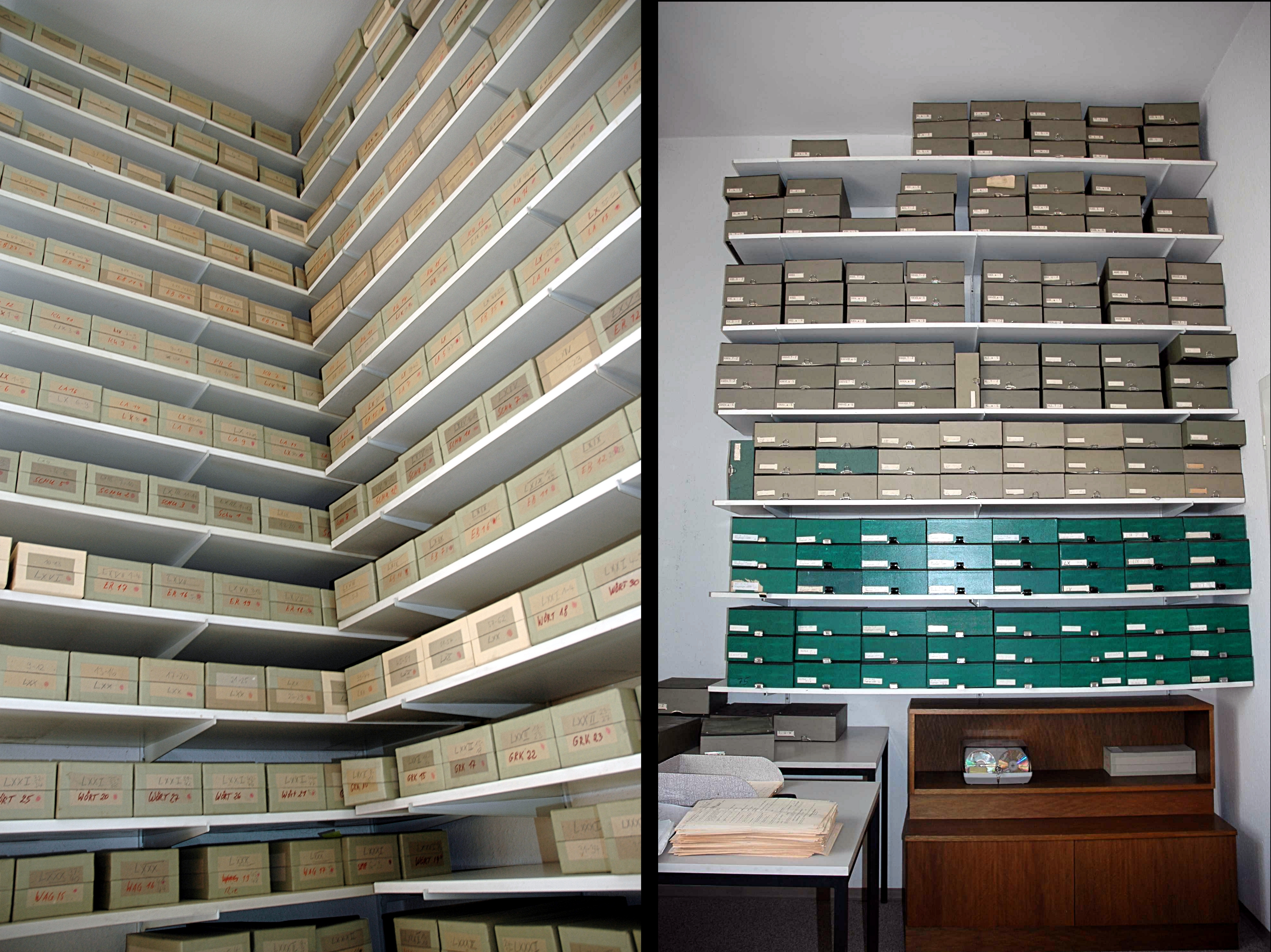 archive of "Ostfränkisches Wörterbuch" in Germany / Bayreuth